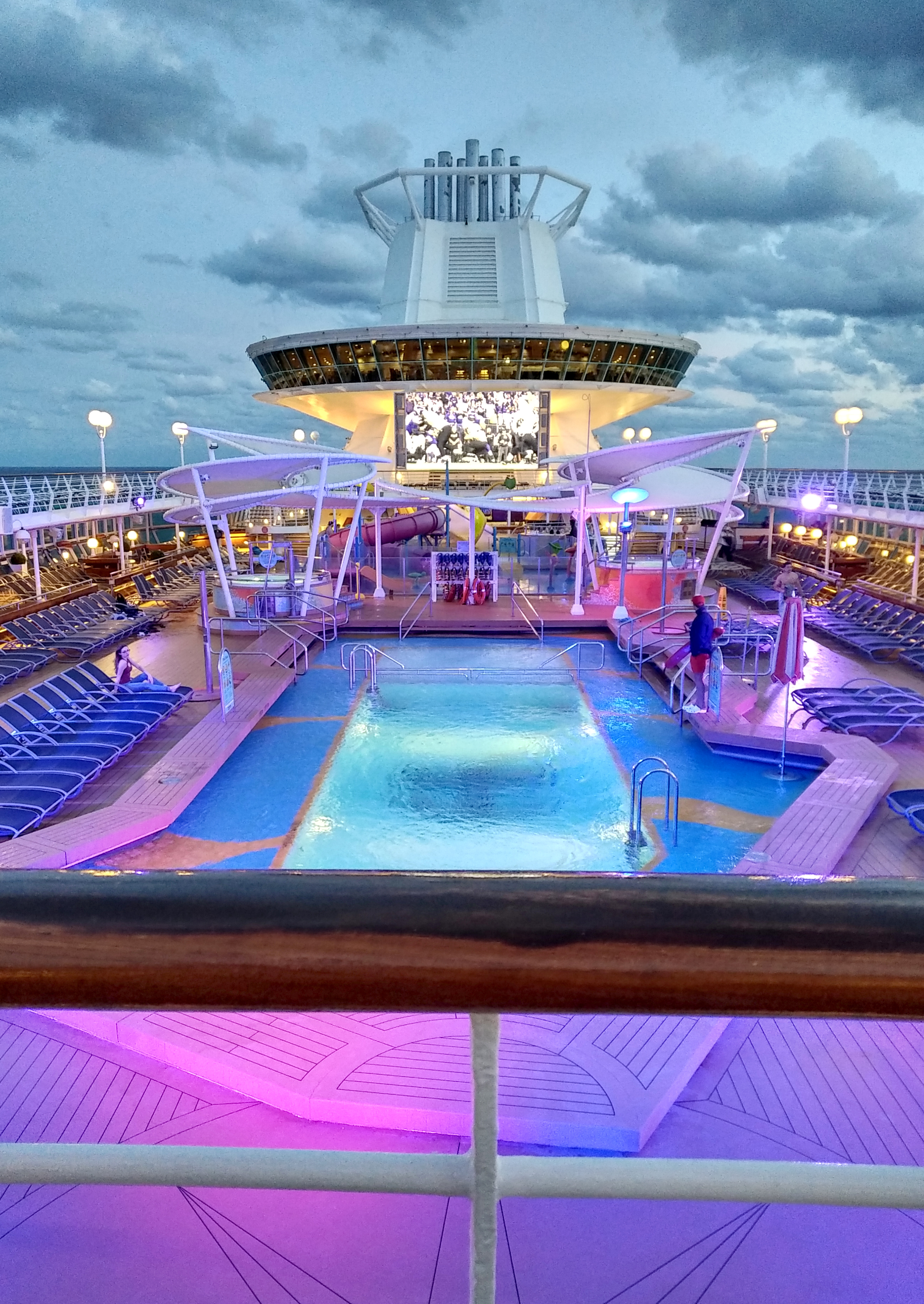 Royal Caribbean MS Majesty of The Seas pool deck on an upper deck of the ship near sunset. Photo attribution must go to Steven H. Keys and